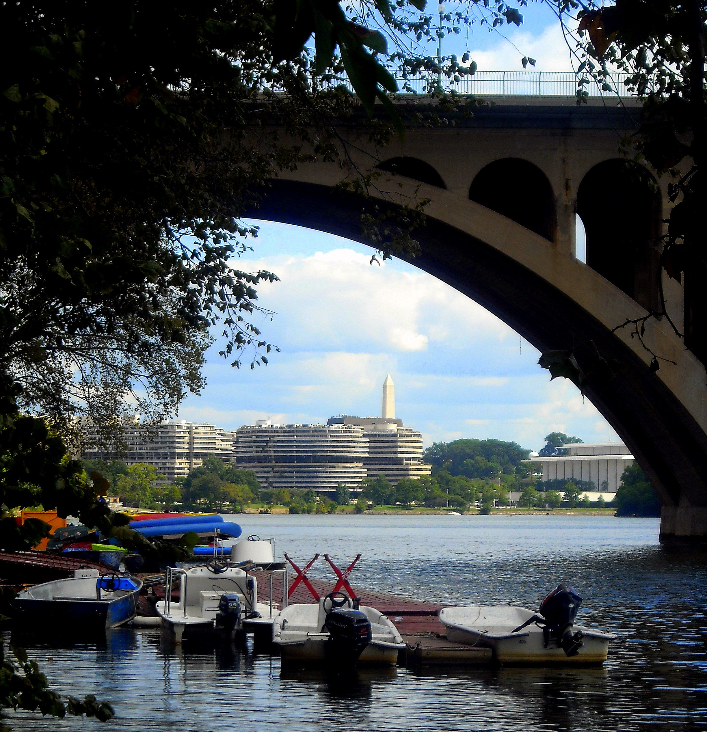 The Potomac River and Francis Scott Key Bridge in the Georgetown neighborhood of Washington, D.C. Looking east towards the Washington Monument, and the Foggy Bottom neighborhood including the Watergate Complex and JFK Center for the Performing Arts. The canoes are from Jack's Boathouse located at 3500 K Street, NW. The red dock and motor boats in the foreground are attached to Potomac Boat Club